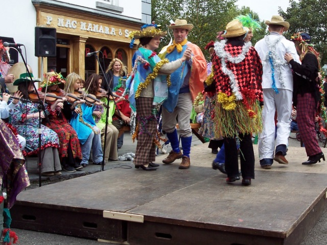 Wren Boys, Bunratty Castle Traditional musicians, singers and dancers in bright colourful costumes and straw suits create great excitement as they entertain the crowds. It is a family fun day where all are encouraged to dance and sing along with the Wren Boys.